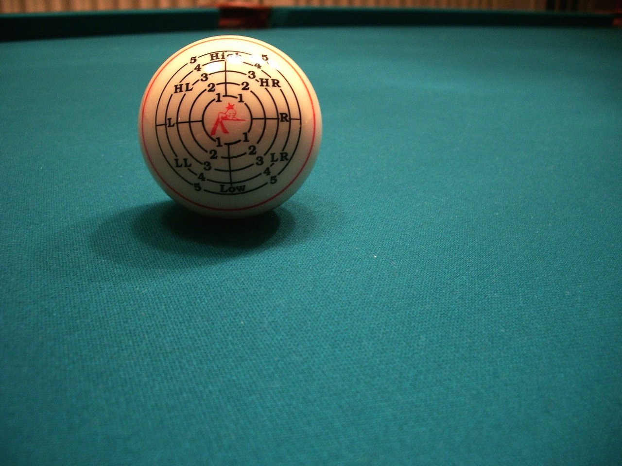 A special cue ball for practicing, devised by pro player James Rempe. It features "targets" (one simple, one [shown] complex) for aim-training for "english", "draw" and other forms of cue ball control.